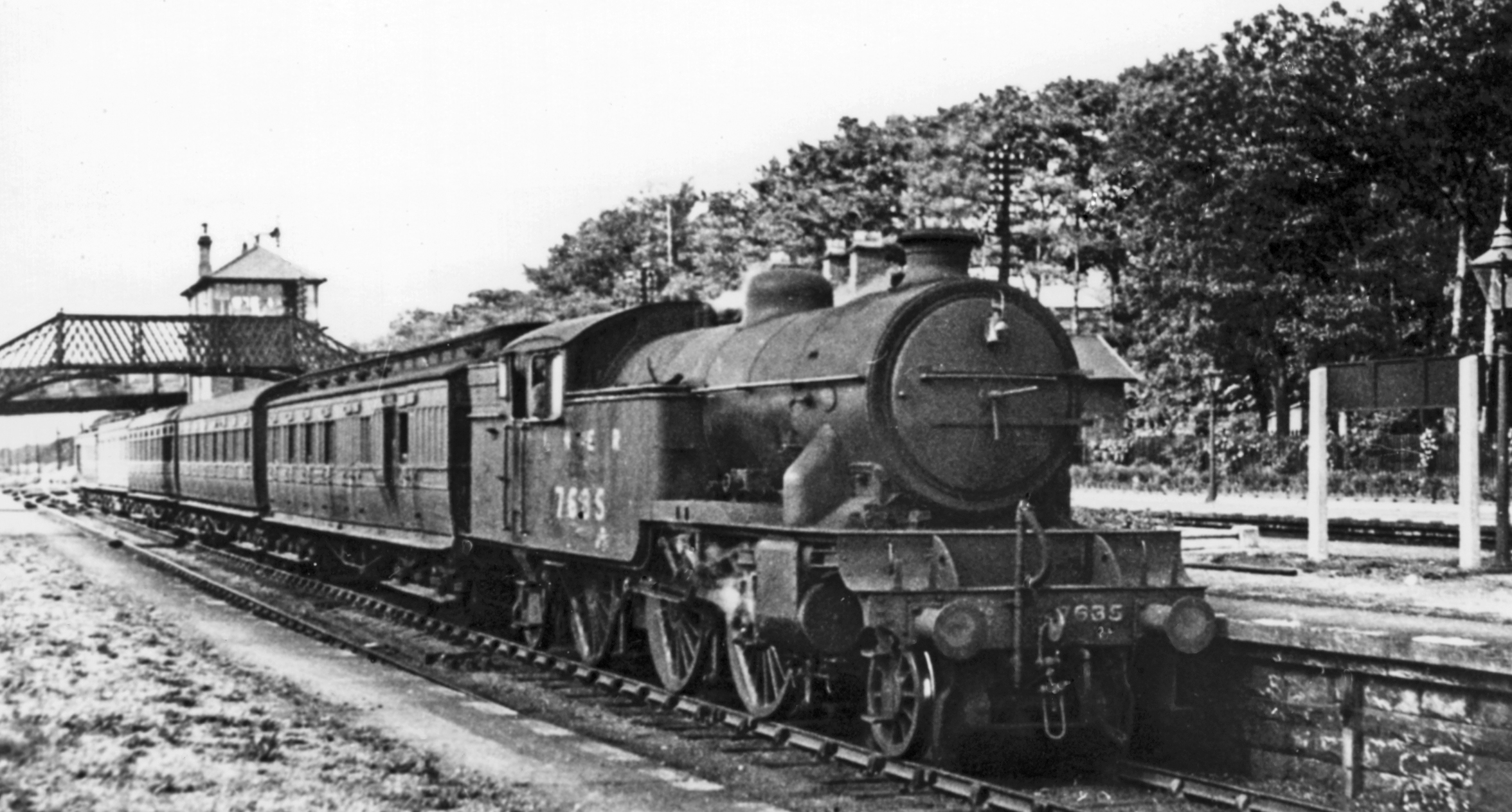 Newcastle - Blackhill local train at Low Fell, 1946View northward on the ex-NER ECML, towards Newcastle. The locomotive is Gresley V1 class 2-6-2T No. 7635, recently renumbered from its number 446 when built 4/35; as BR No. 67635 it lasted until 9/63.